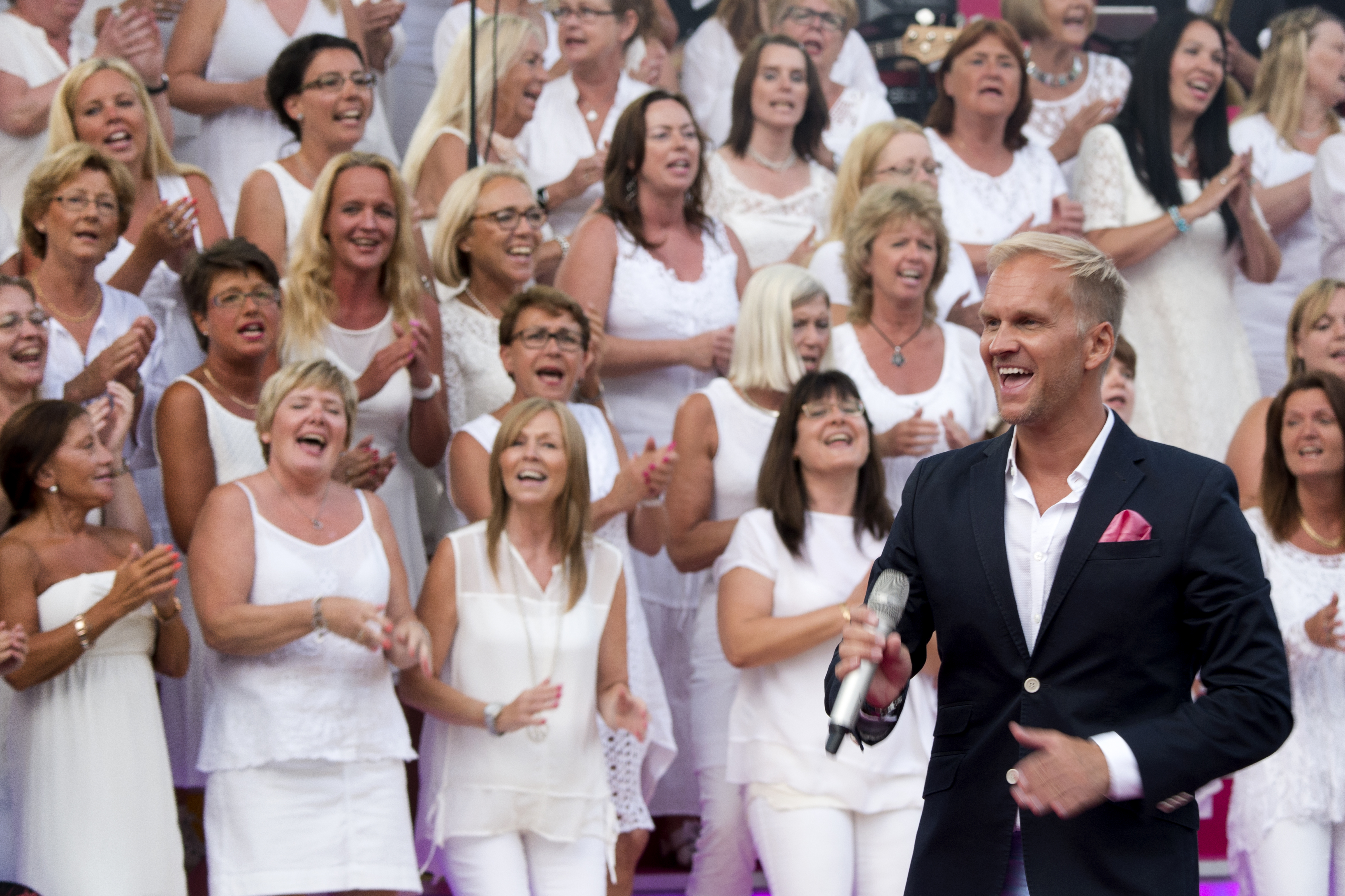 Gabriel Forss at Sommarkrysset in Stockholm, Gröna Lund